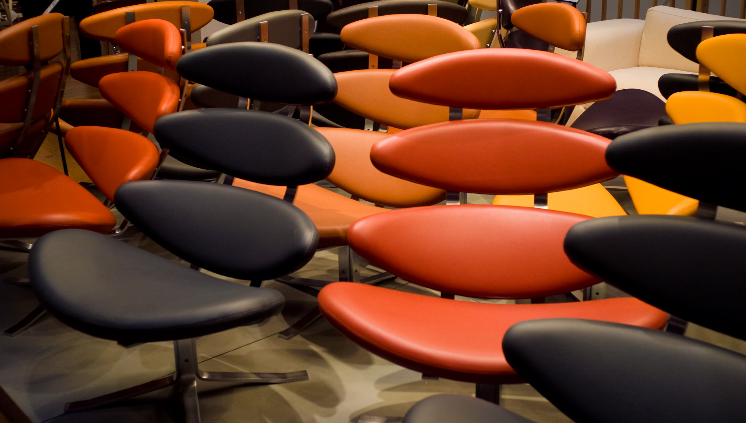 Poul Volther's Corona chair photographed in Illums Bolighus in Copenhagen, Denmark